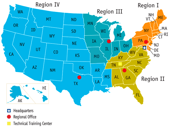 Map of the United States by Nuclear Regulatory Commission (NRC) Region (Now shows Mississippi in Region 4, rather than 2.)